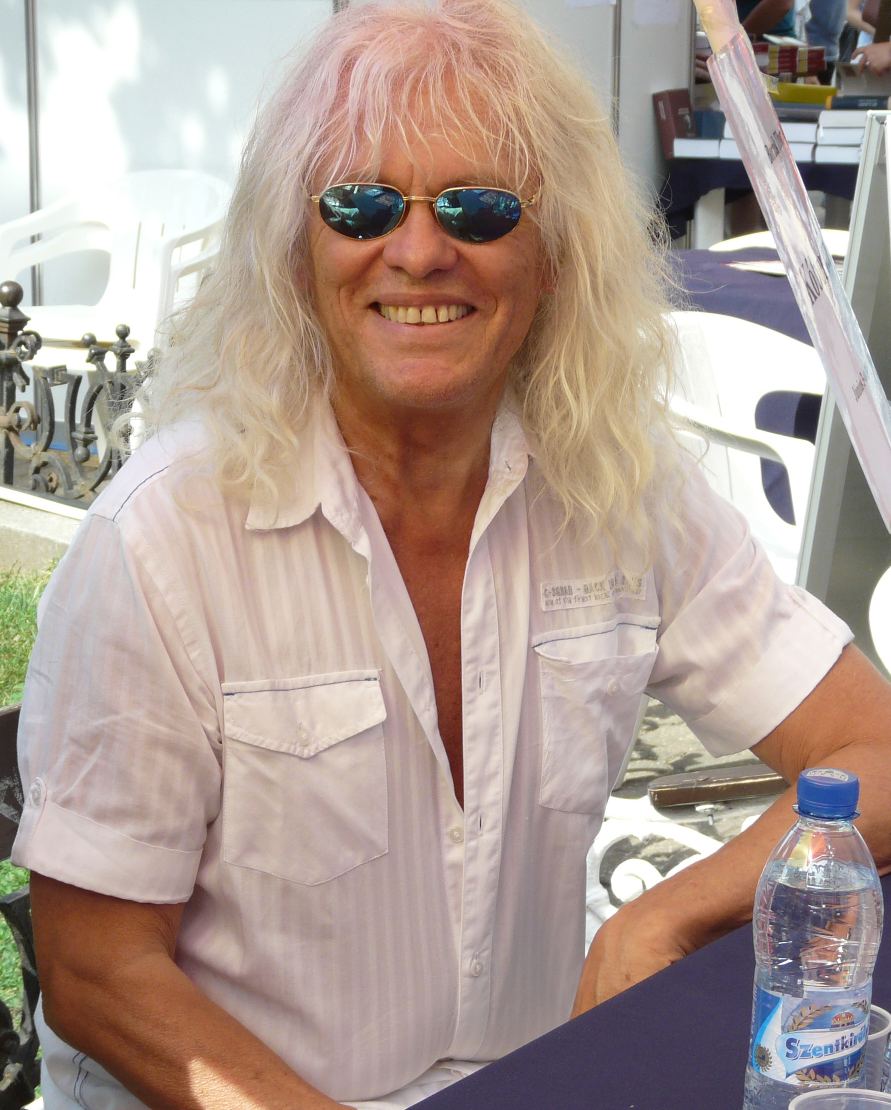 János Kóbor, Hungarian rock musician, singer. Bookfests in Budapest, Juin 2011.